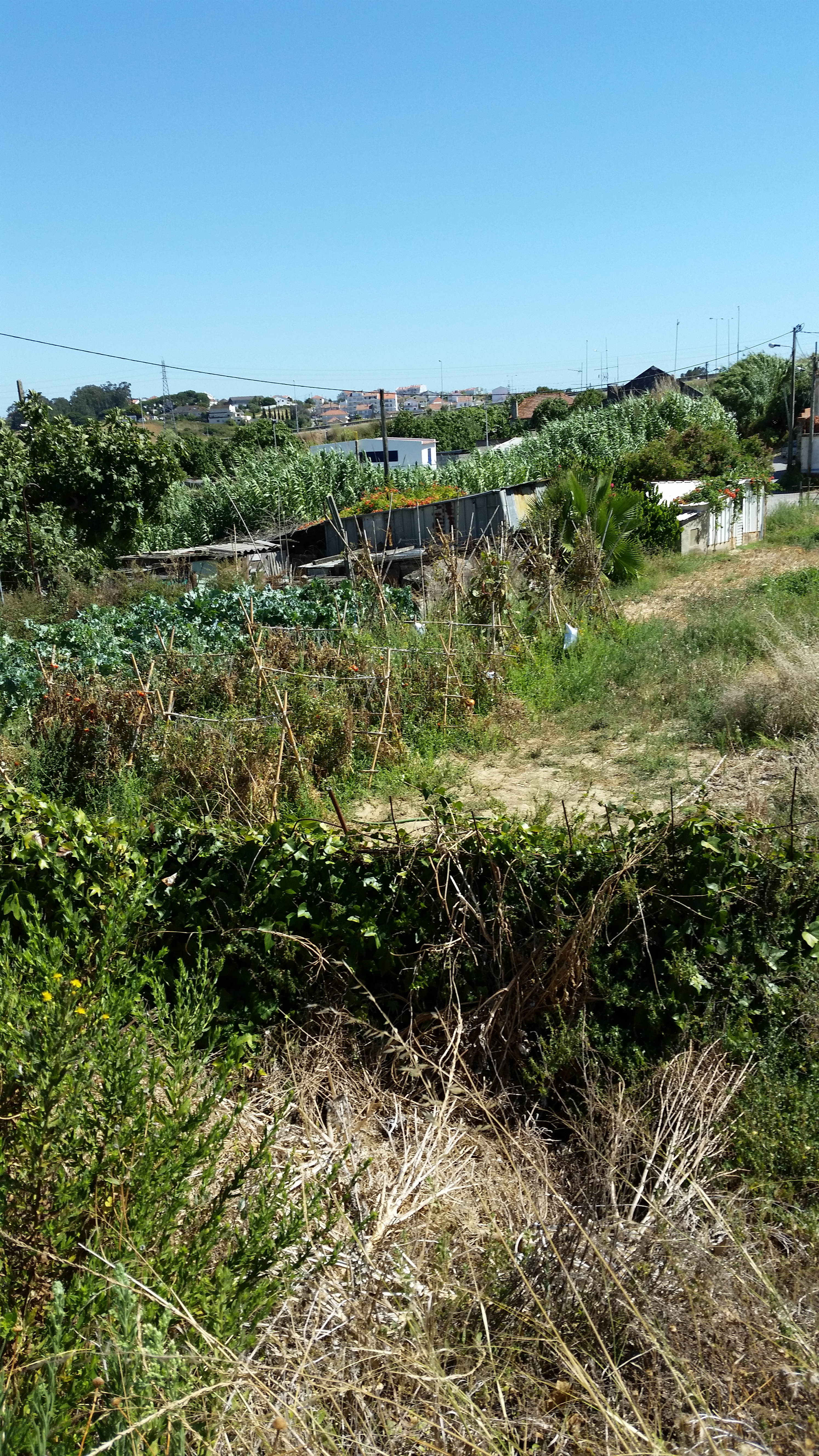 Vue of the old Alcaniça